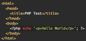 The font used in this image is Monaco 12pt.